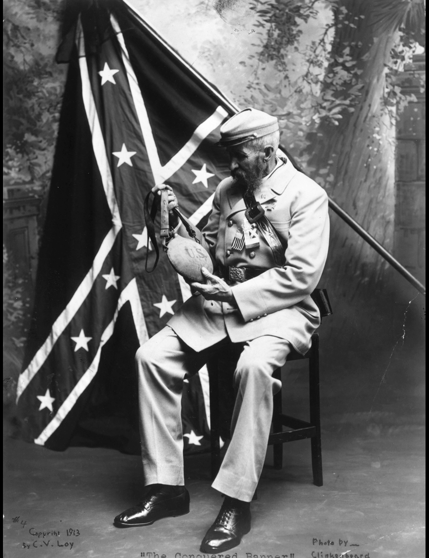 Photo of Confederate soldier & battle flag. Note: Louis Napoleon Nelson, a veteran of the Confederate States of America, who rode with Forrest examines a Union water bottle in front of a Confederate flag.